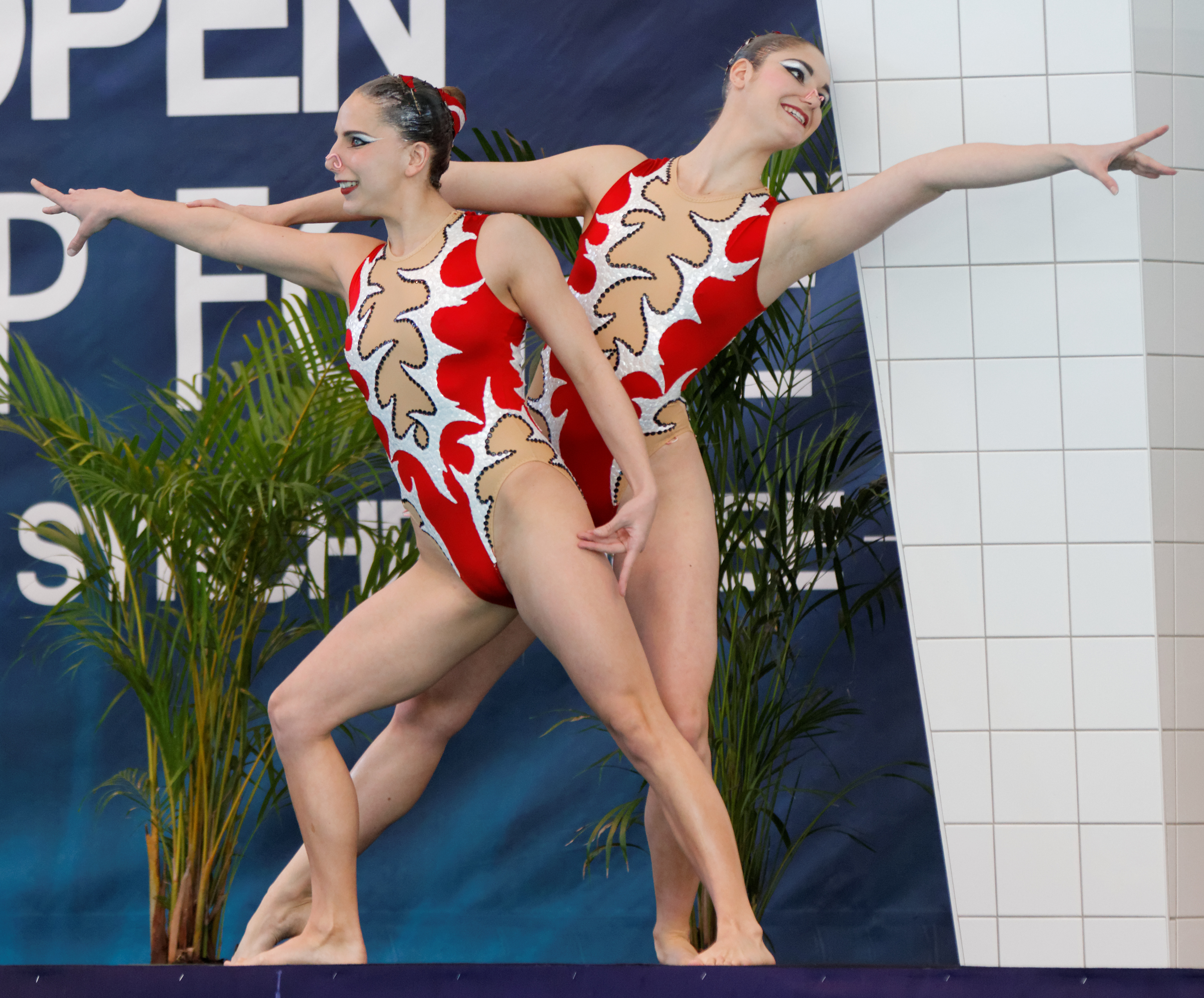 Swiss synchronized swimmers Pamela Fischer and Anja Nyffeler in a Duet exercise during the French Open in Montreuil, March 14, 2013.